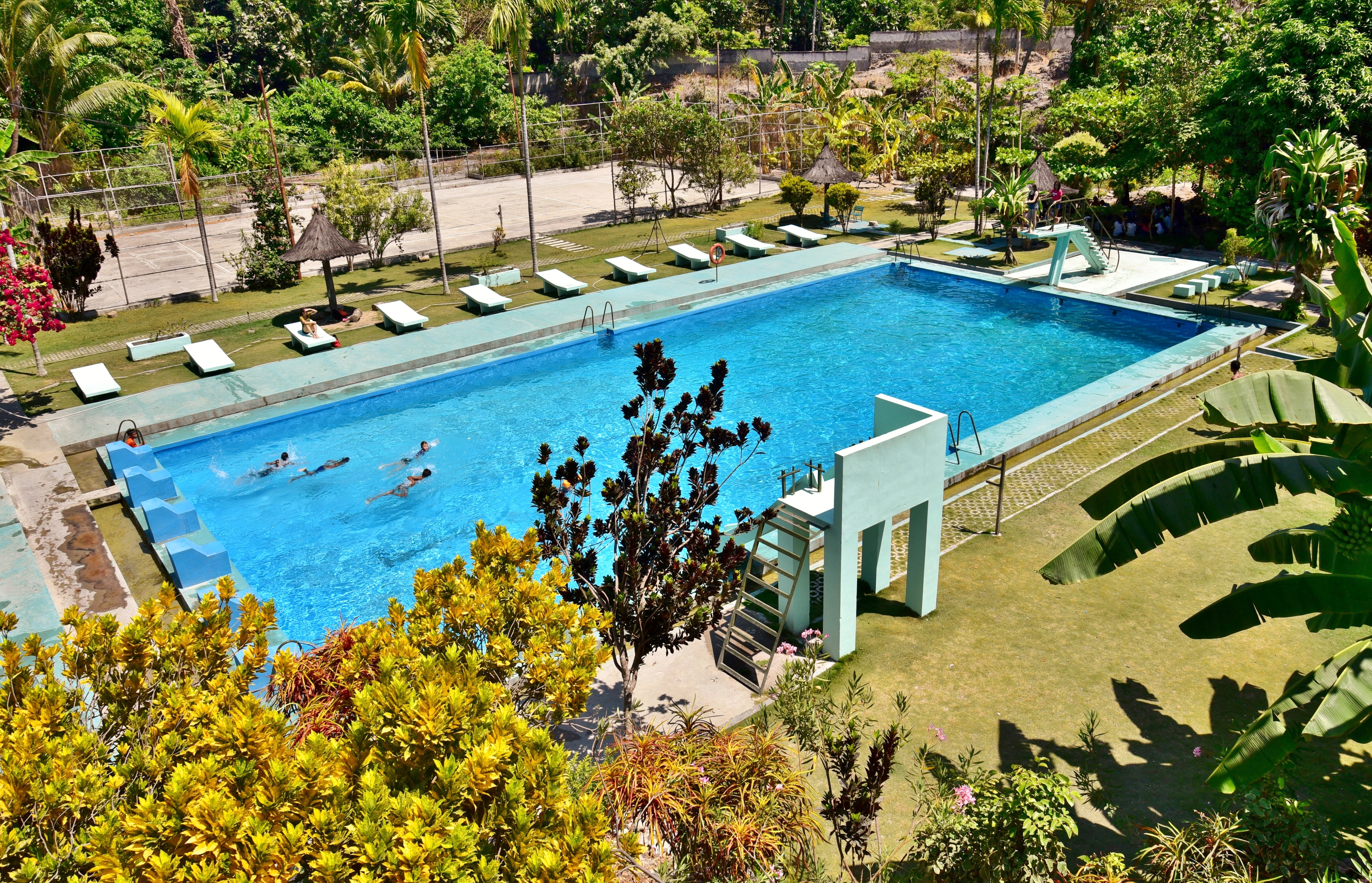 View of the Piscina de Baucau (Baucau Swimming Pool) complex, Baucau, East Timor